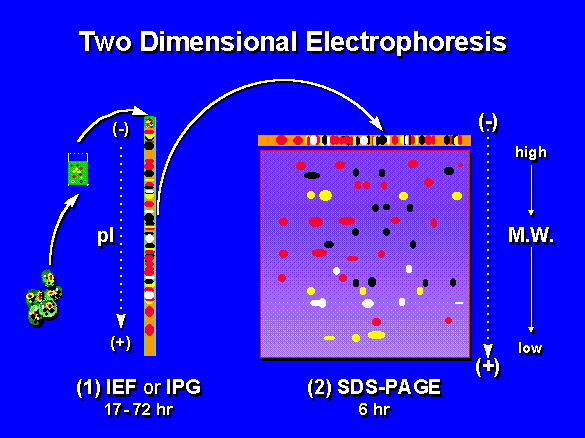 A model of two-dimensional gel electrophoresis